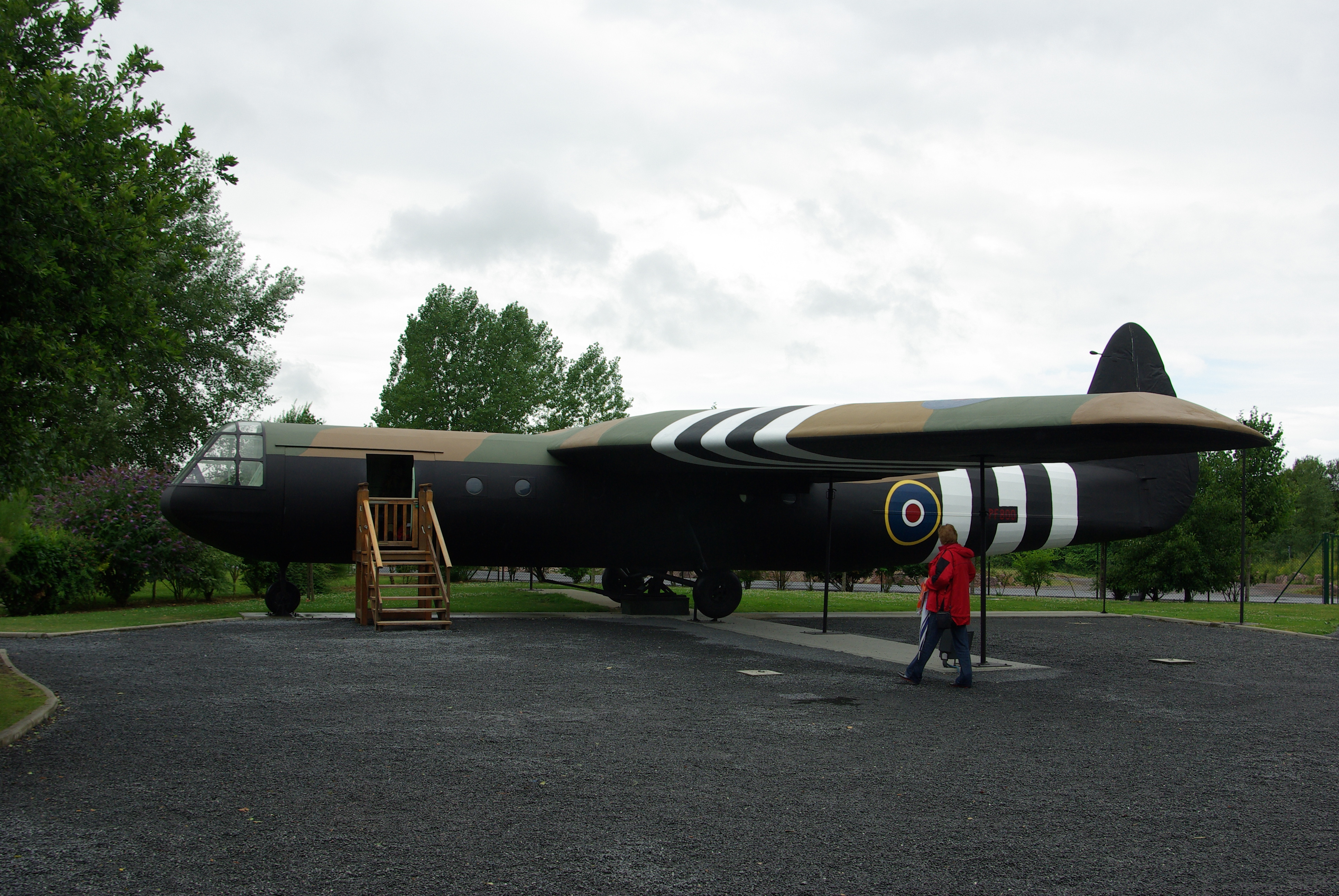 A replica of an Airspeed Horsa display to the Pegasus bridge museum (Bénouville, France).